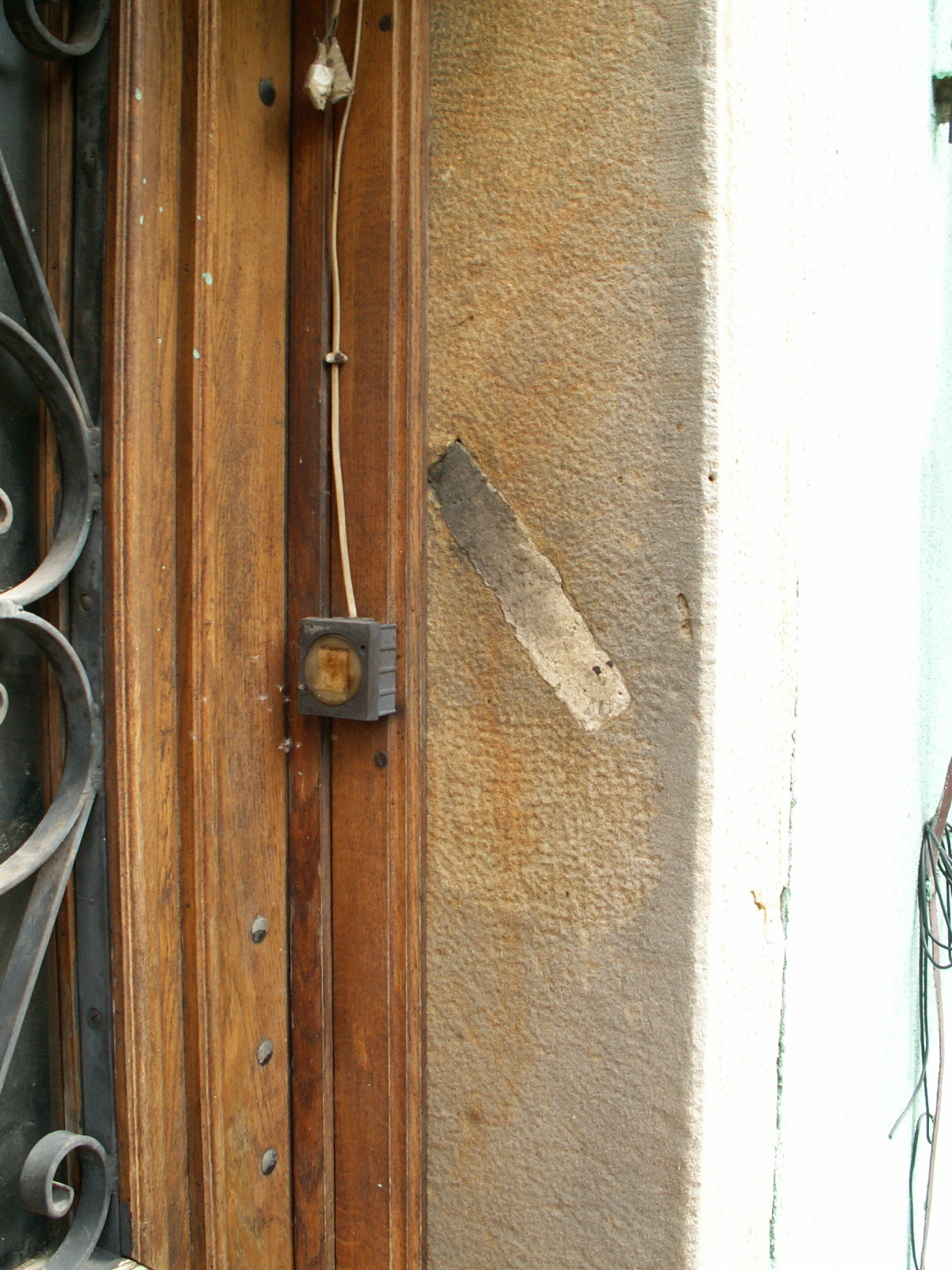 Synagogue in Kalwaria Zebrzydowska